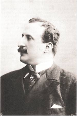 Photo of italian opera singer Mattia Battistini